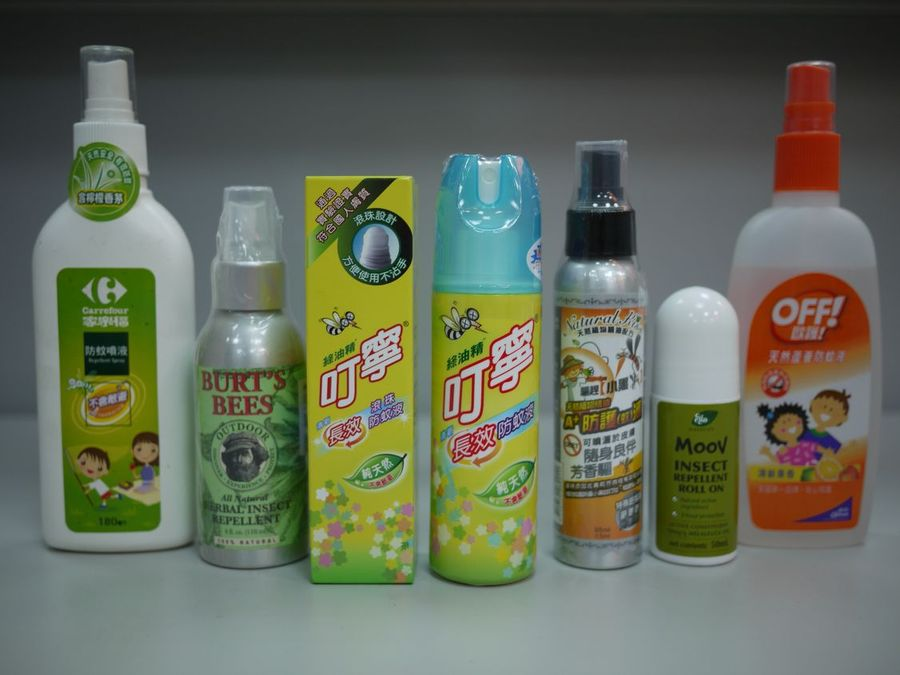 Mosquito repellents